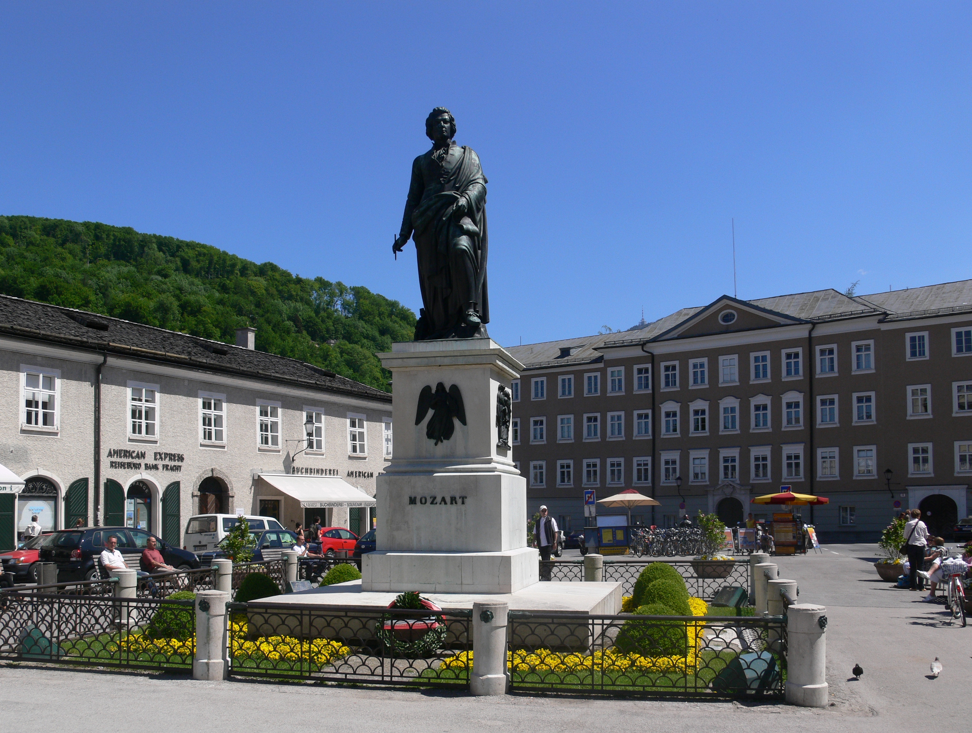 Austria, Salzburg, Mozartplatz